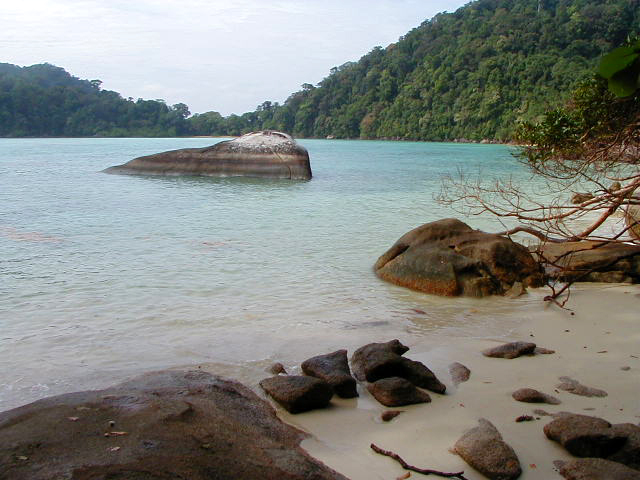 Surin Island National Park, Thailand